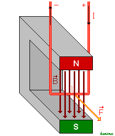 The second half of the original image.